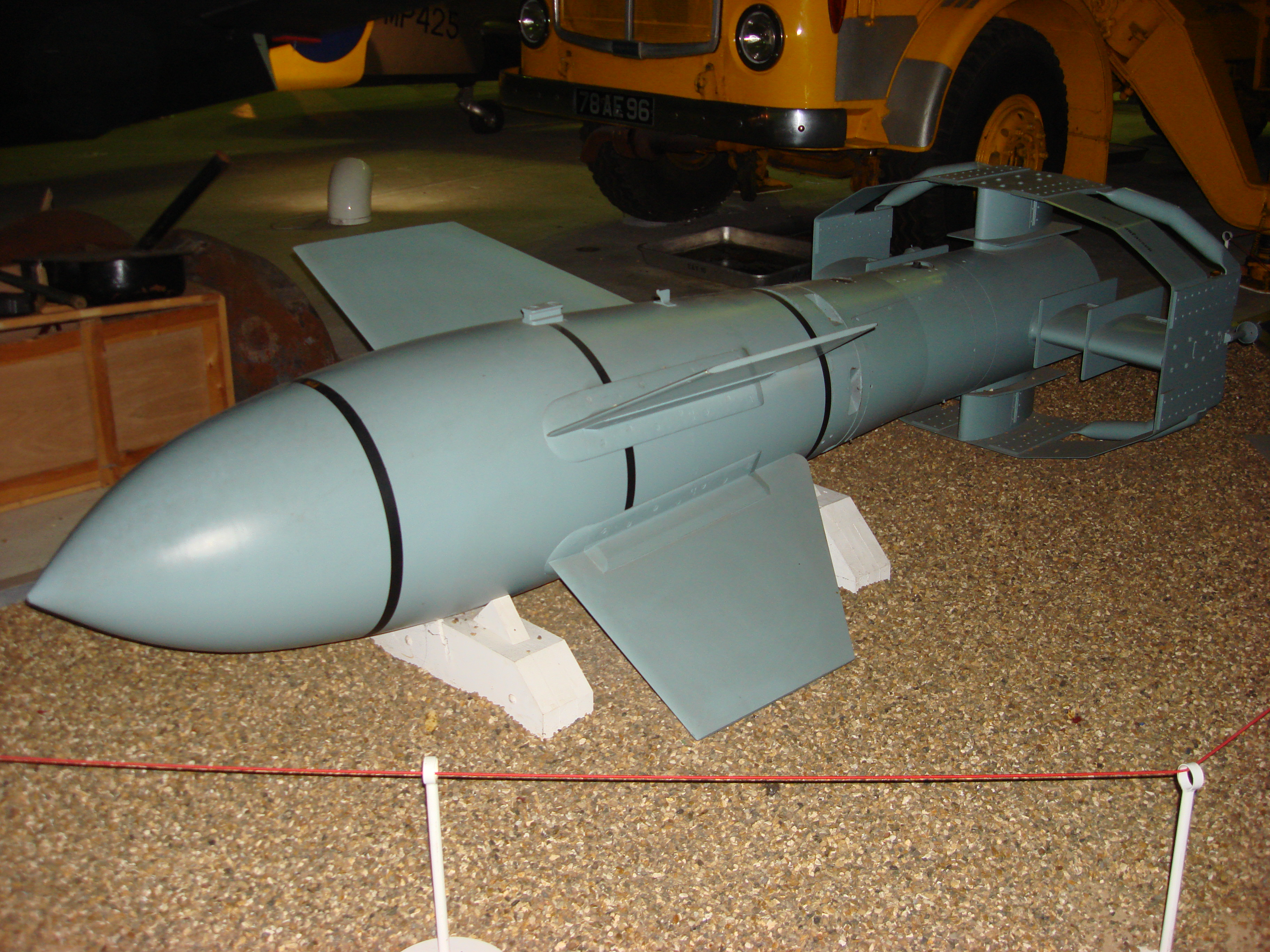 PC1400X 'FRITZ X' guided bomb at the RAF Museum London